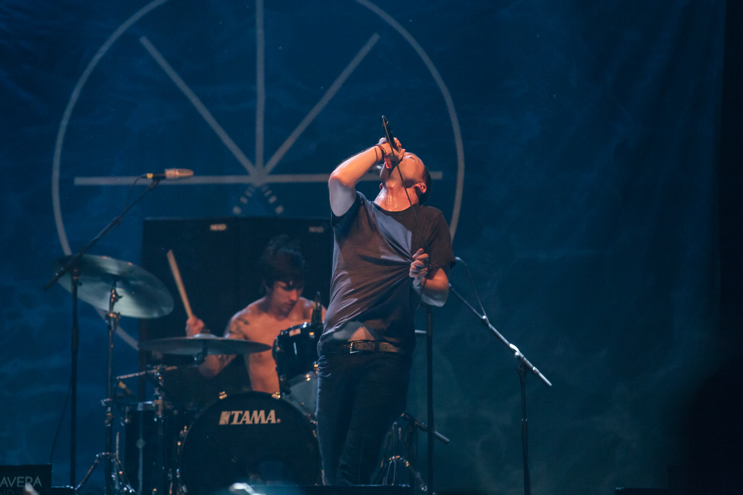 Touché Amoré performing live at Primavera Sound 2014. Photo by Morten Aagaard Krogh )